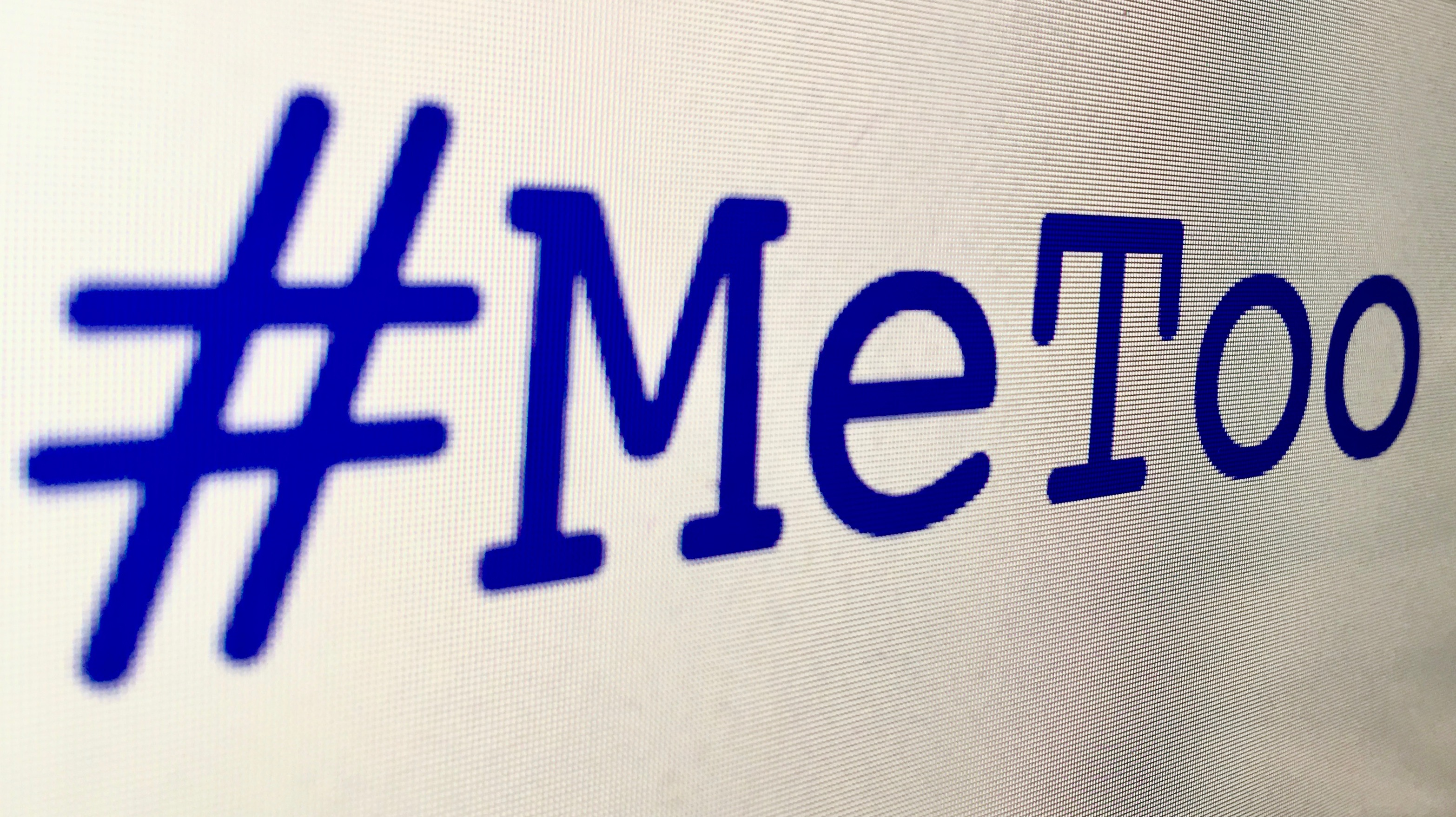 Hashtag #MeToo (digital text on RGB screen version 07)